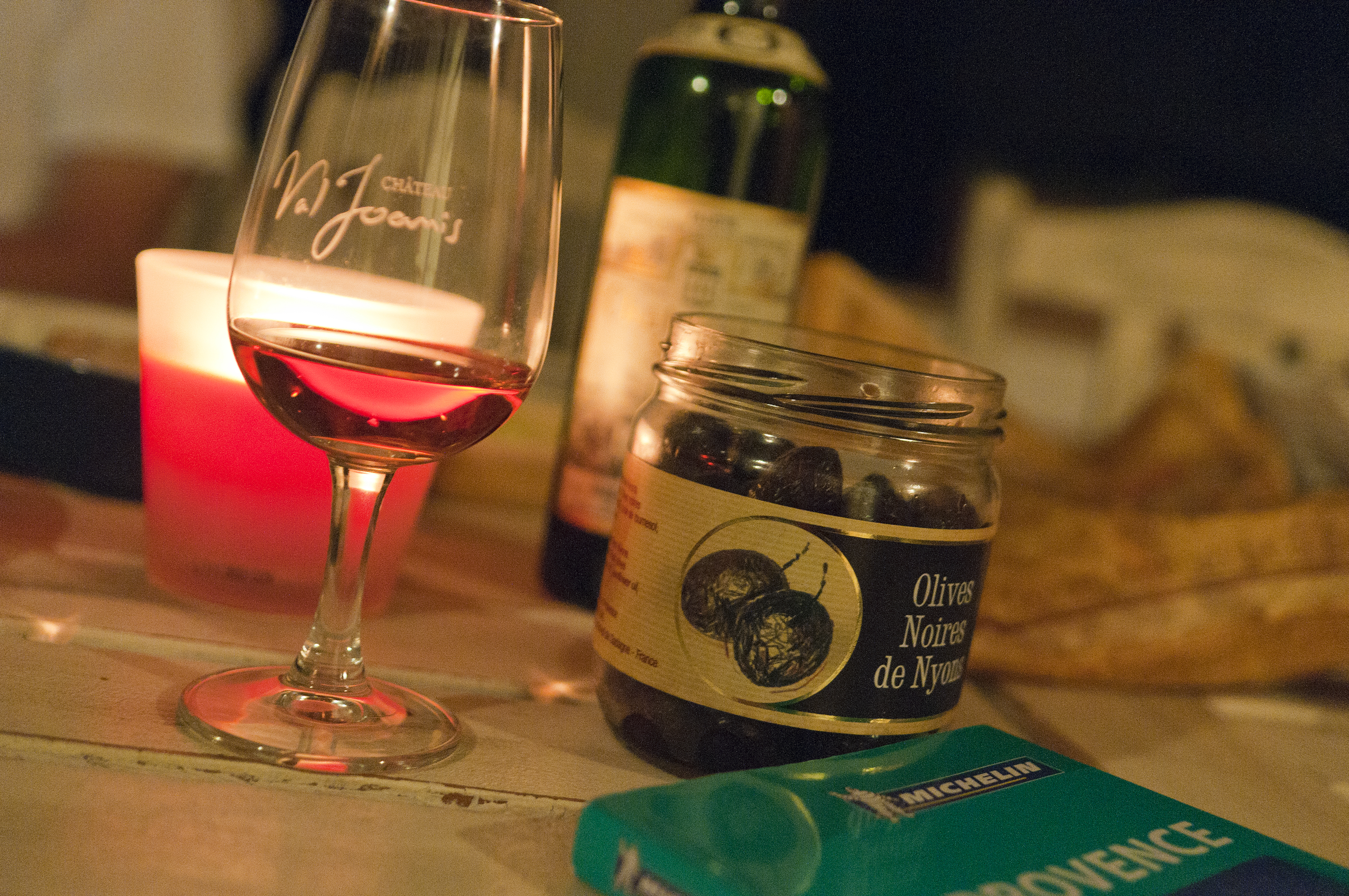 Summer in Provence